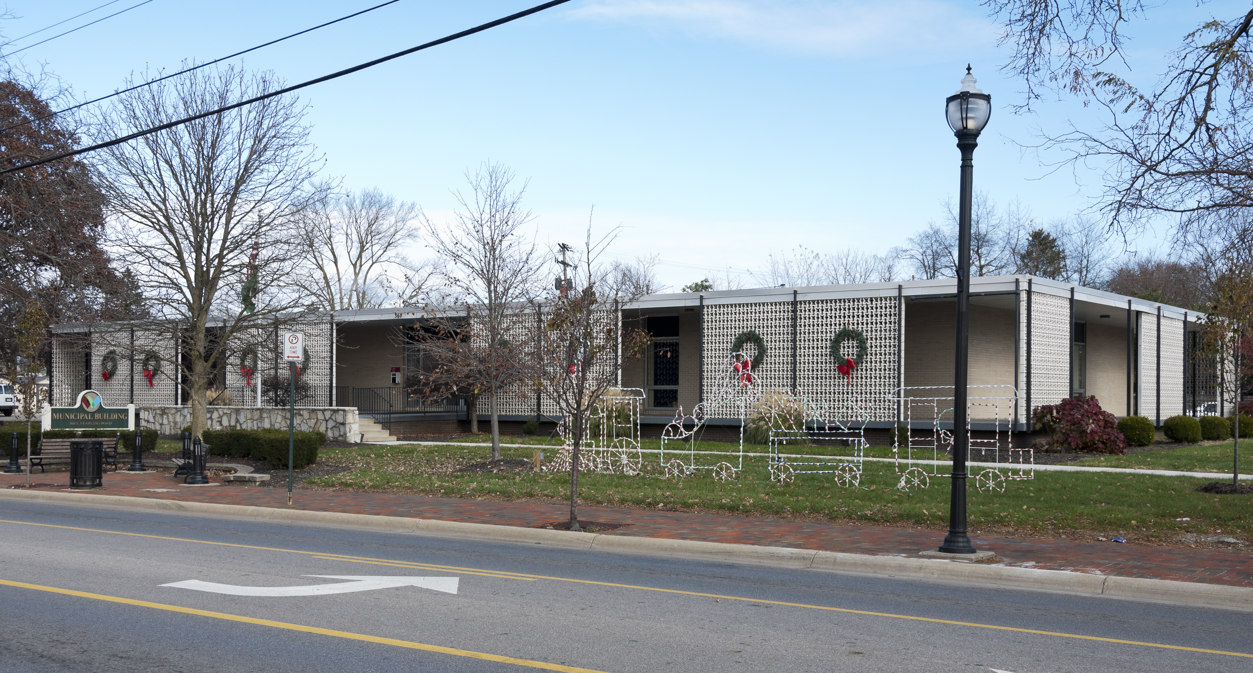 Whitehall Municipal Building decorated for Christmas viewed from the northeast.